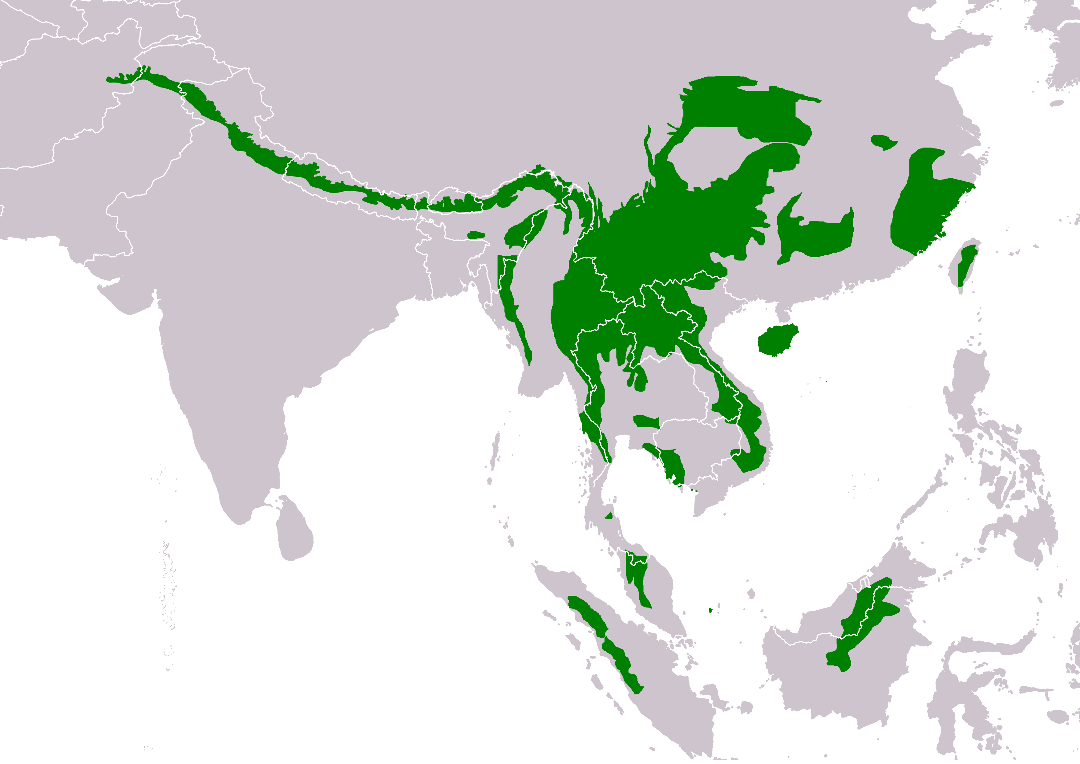 Map of collared owlet (Glaucidium brodiei) according to IUCN 18.2. Legend: Extant, resident (#008000)